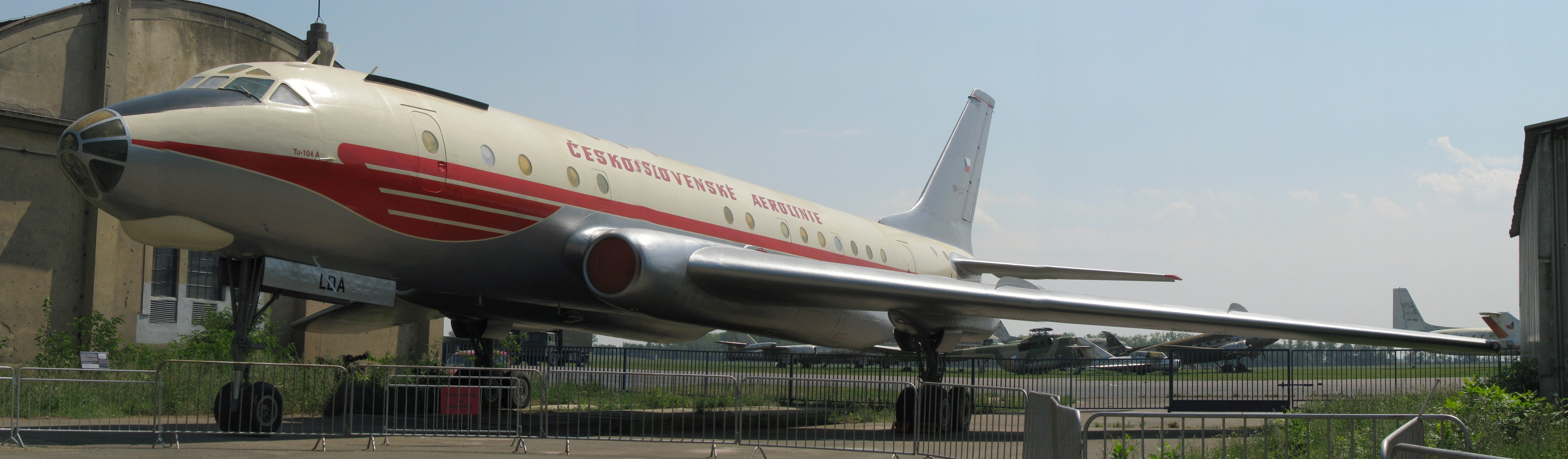 Aircraft Tupolev Tu-104A at air museum Kbely in Prague